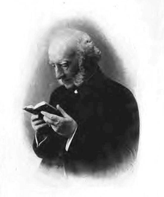 photograph of Augustus Jessopp from Random Roaming, 1894